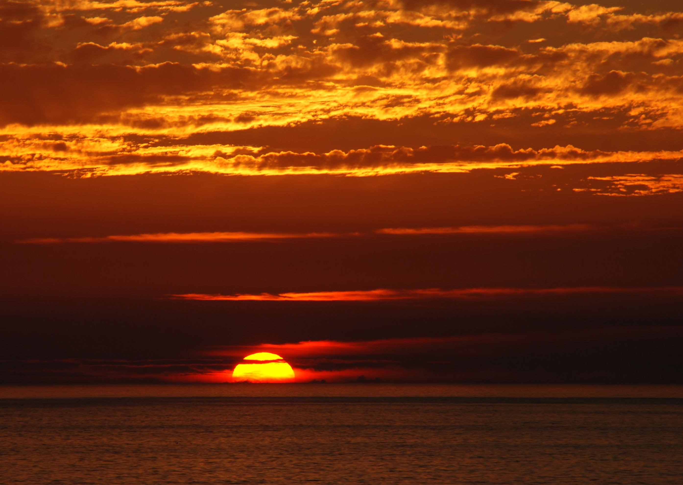 Sunset at Porto Covo, west coast of Portugal